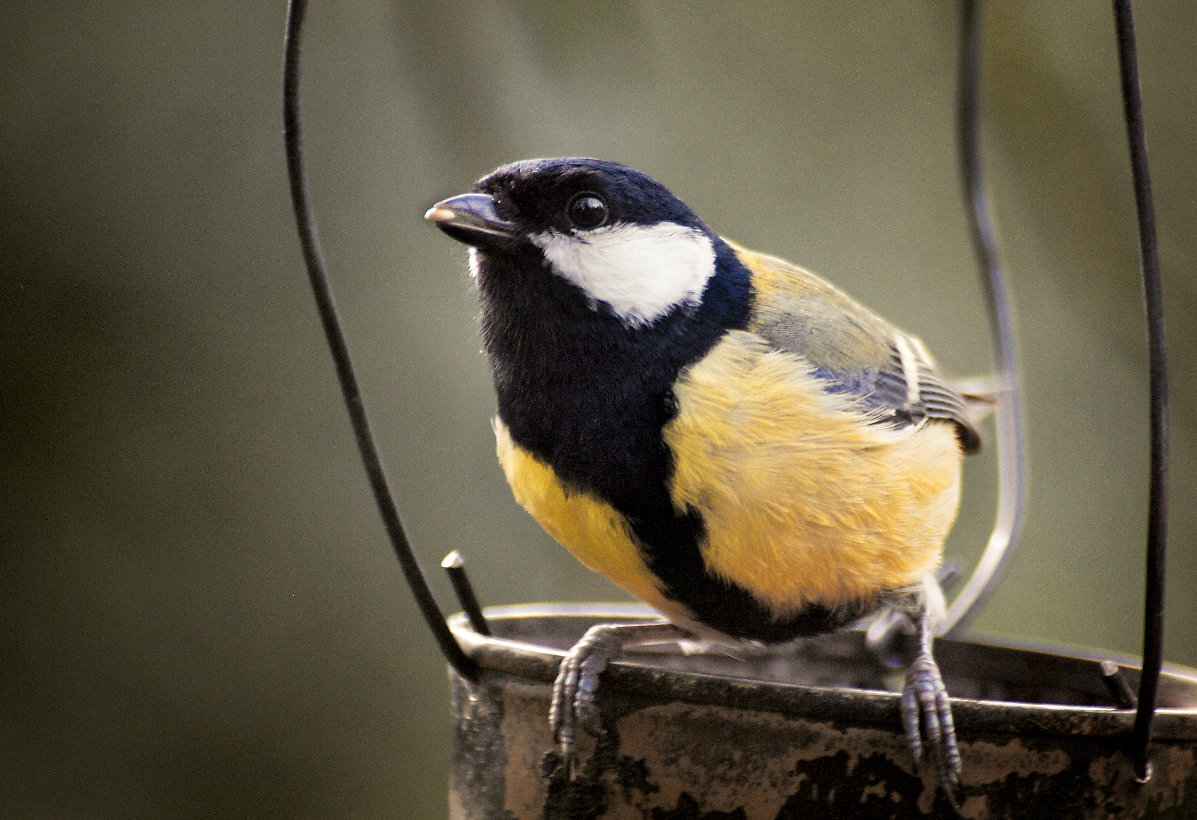 A wild Great Tit at Kew Gardens, London, England.